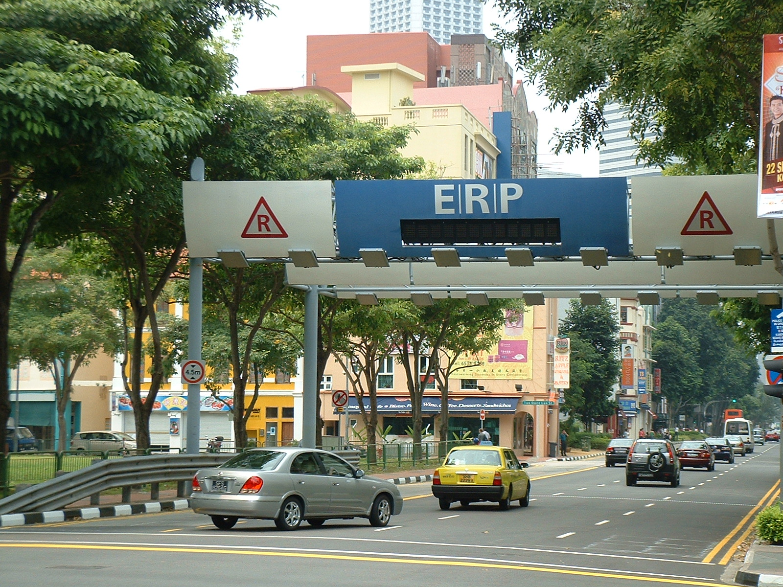 Taken in Singapore near Beach Road